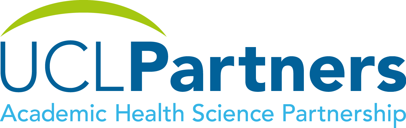 UCLPartners logo